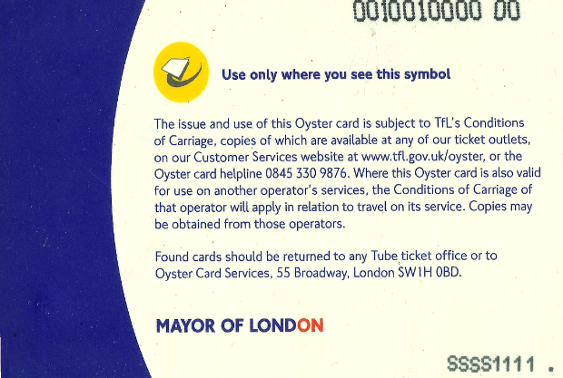 The back of an early Oyster card (2004ish - 2011), Code was changed for obvious reasons.